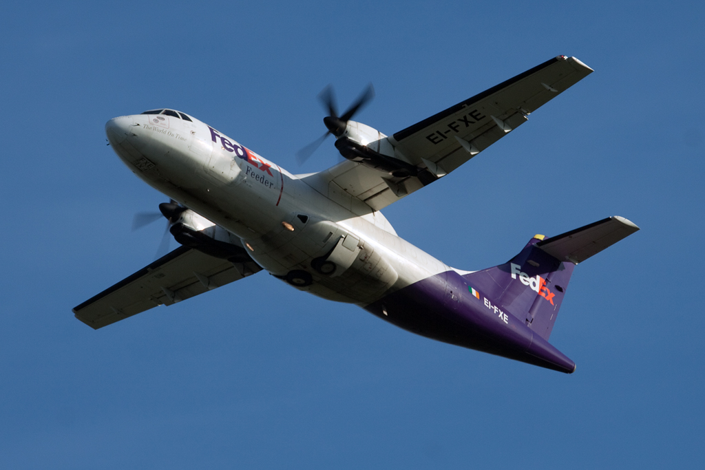 EI-FXE ATR42F Air Contractors/FedEx. Daily freight service. Shannon 22 May 2012